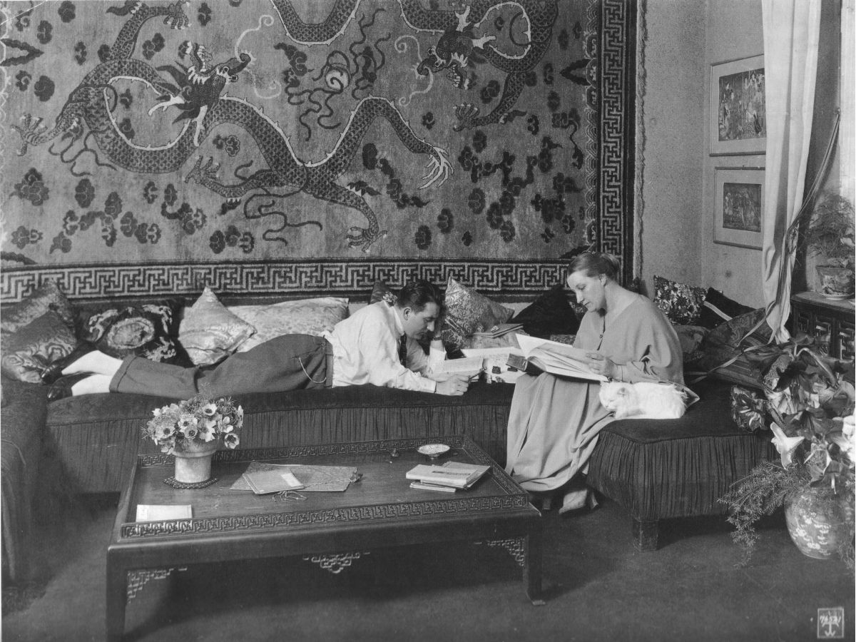 Fritz Lang and his wife Thea von Harbou in their Berlin apartment, in 1923 or 1924 (which is, when the script for Metropolis was prepared). The photograph is from a series about this famous couple and their suite.